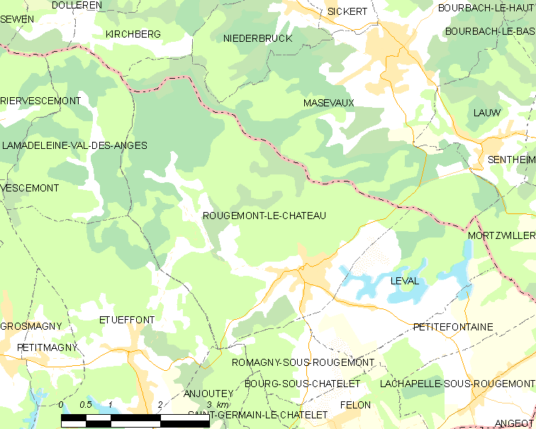 Map of French municipality Rougemont-le-Château